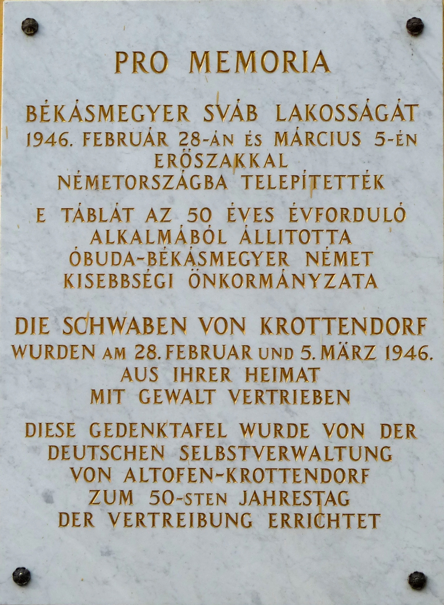 Commemorative plaque in Békásmegyer-Ófalu for the 50th anniversery of the Germains' forced transfer from the community into Germany. (Budapest, District III, Street Templom Nr 13).